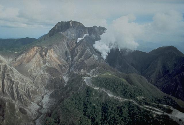 Pre-eruption Mount Pinatubo, as viewed from the north in late April. Grayish-tan ash and several craters from the April 2 phreatic explosion craters are visible at the left. . USGS: Photographic Record of Rapid Geomorphic Change at Mount Pinatubo, 1991-94